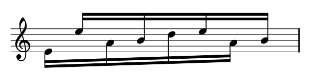 Basic Unit of 8 notes of second section of Piano Phase, by steve Reich